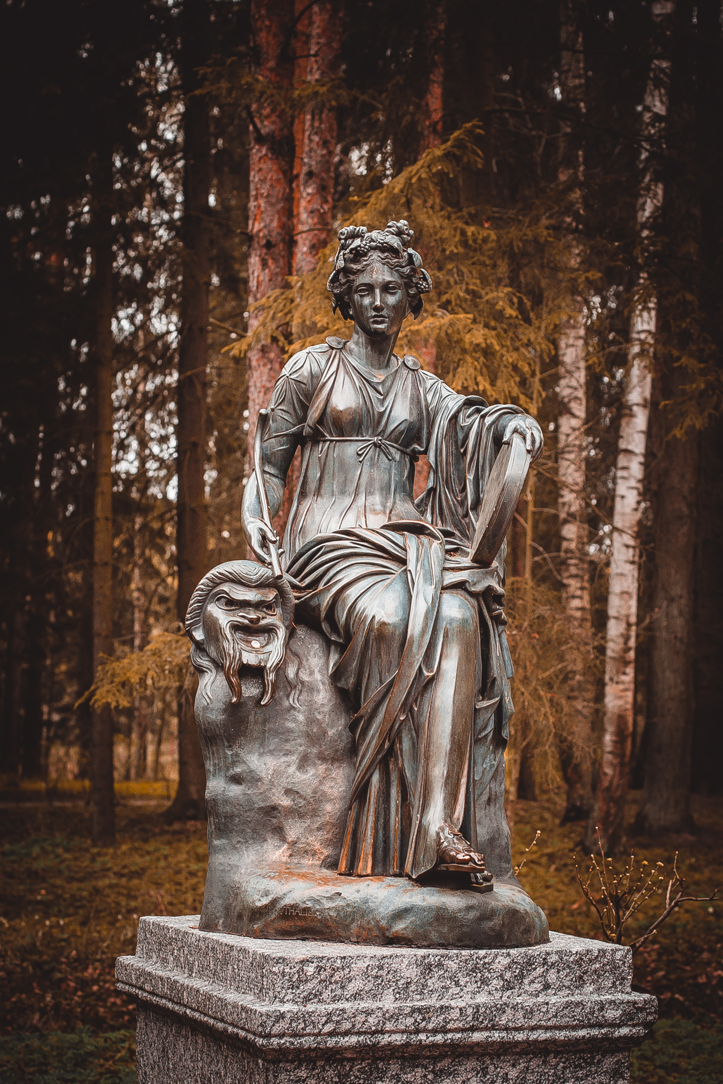 Thalia (muse of comedy) The Pavlovsk Park Twelve Paths at Old Silvia Apollo and the muses